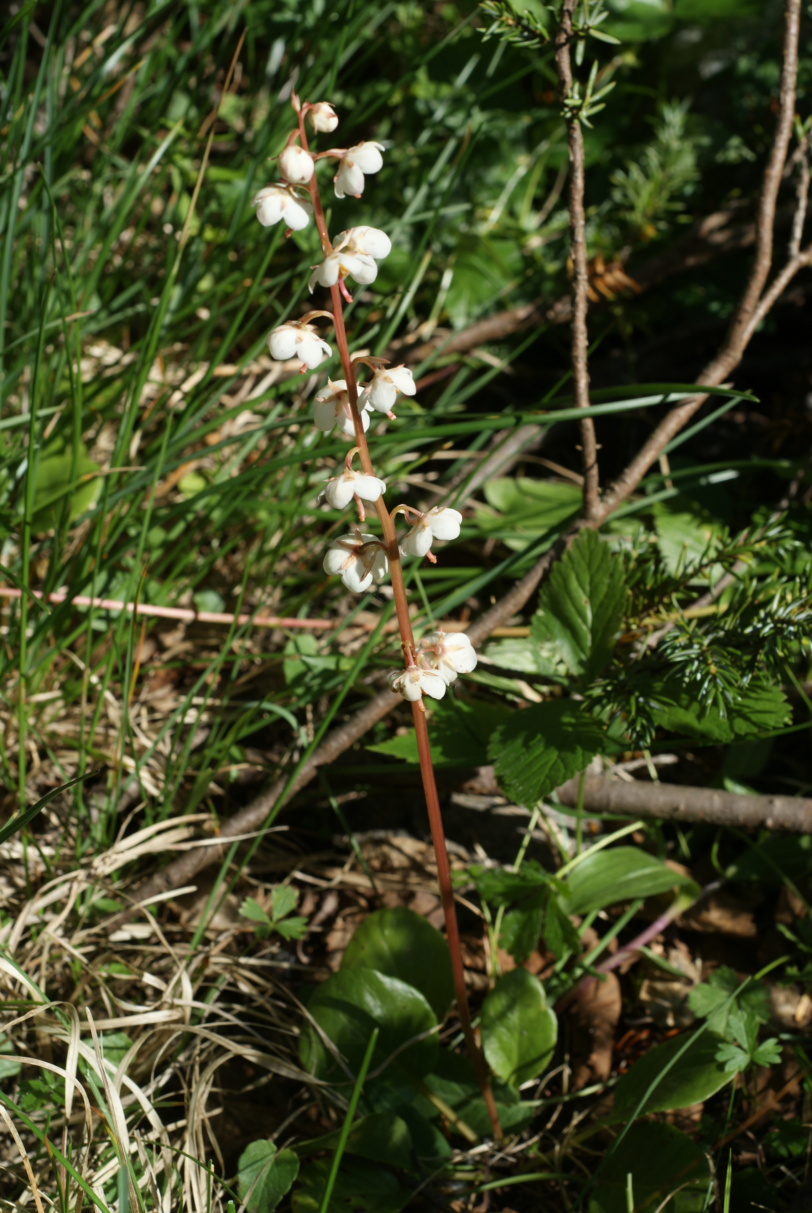 Plant of Pyrola rotundifolia in its natural habitat in the Rätikon mountain range (Switzerland).